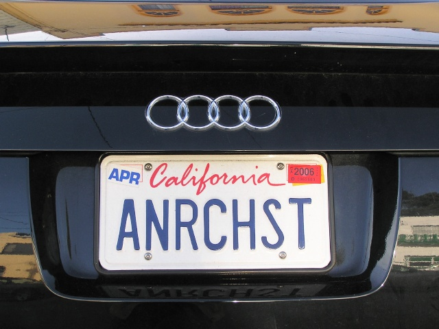 Audi automobile with the license plate "ANRCHST". Photo taken in San Francisco on March 18, 2006.